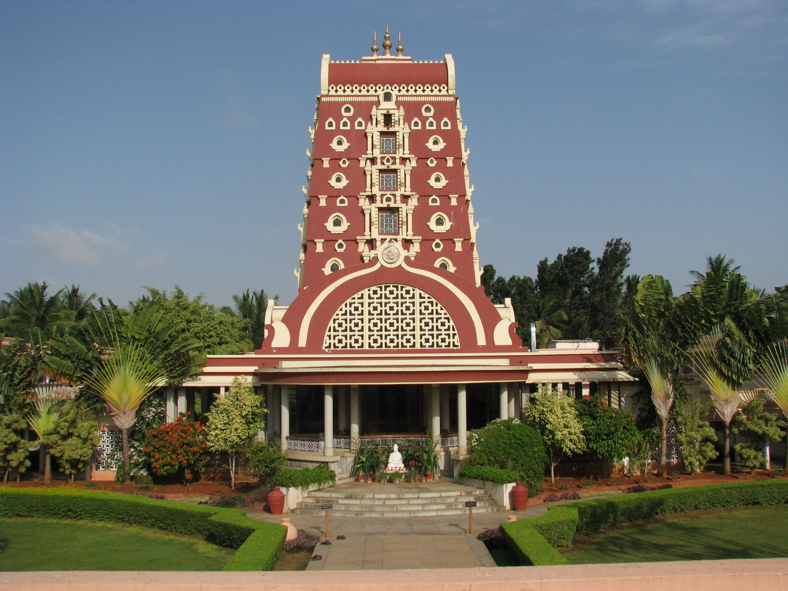 A marble statue of Swami Vivekananda is installed at the entrance of the main temple at Ramakrishna Institute of Moral and Spiritual Education, Mysore, Karnataka, India